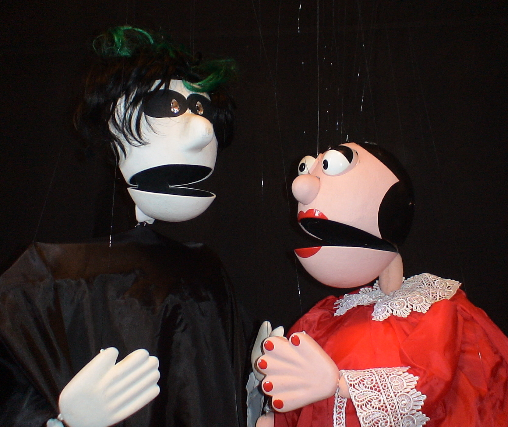 PHANTOM of the OPERA, marionettes-transformers, Nikolai Zykov Theatre, Russia. Nikolai Zykov - Soviet and Russian actor, producer, artist, designer, puppet-maker, master puppeteer, author of over 20 puppet performances. Nikolai Zykov has created and has made over 80 puppet vignettes with participation of marionettes, hand, rod, giant, radio-controlled and experimental puppets. Nikolai Zykov has performed in 35 countries around the world.